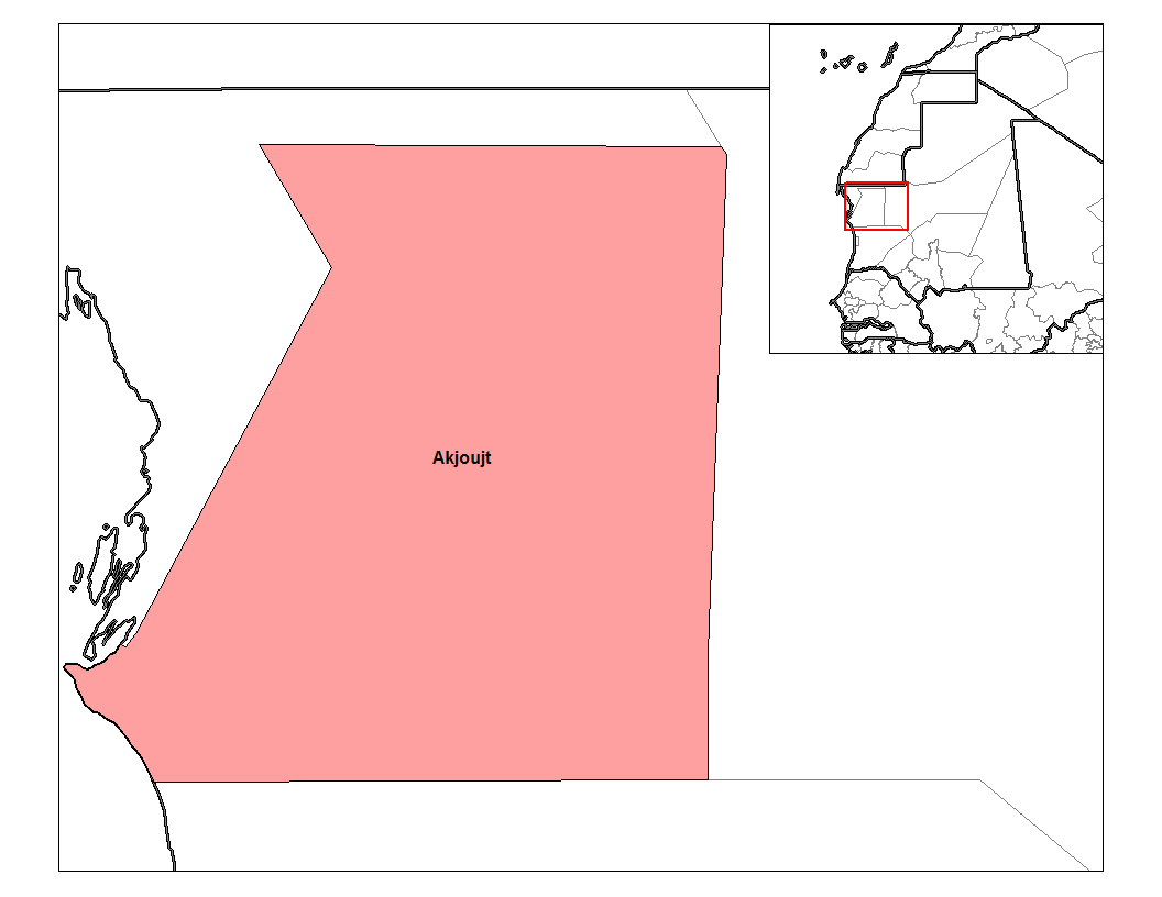 Map of the Inchiri department of Mauritania. Created by Rarelibra 20:13, 28 September 2006 (UTC) for public domain use, using MapInfo Professional v8.5 and various mapping resources.